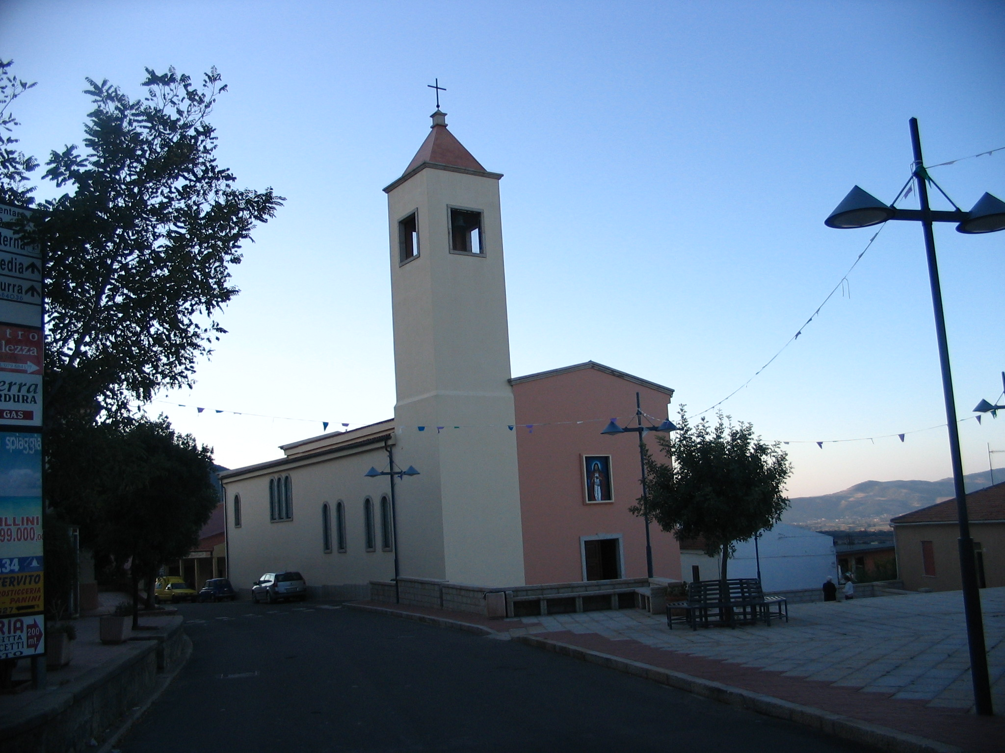 Church of Badesi in Sardinia